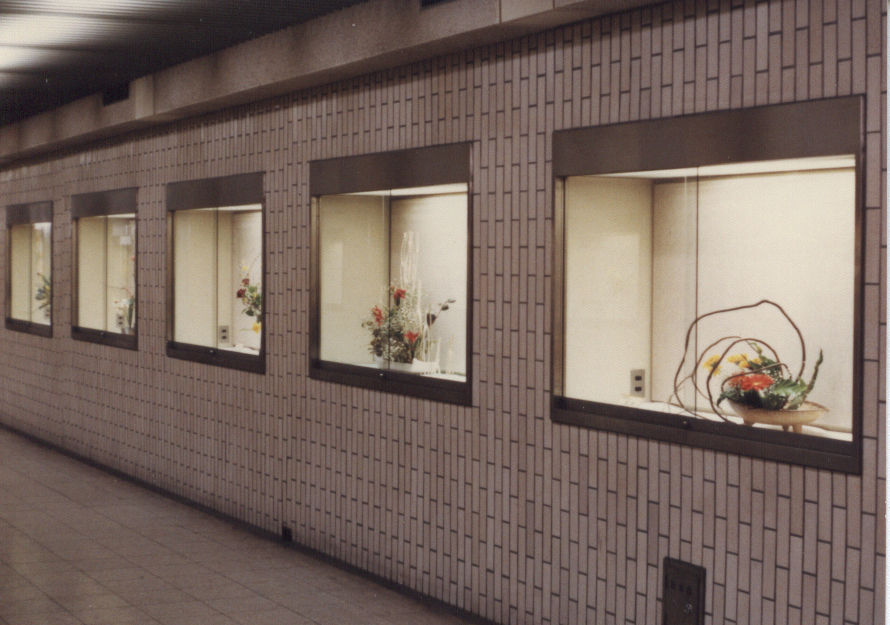 Exhibition of ikebana arrangements in a Kyoto subway station.